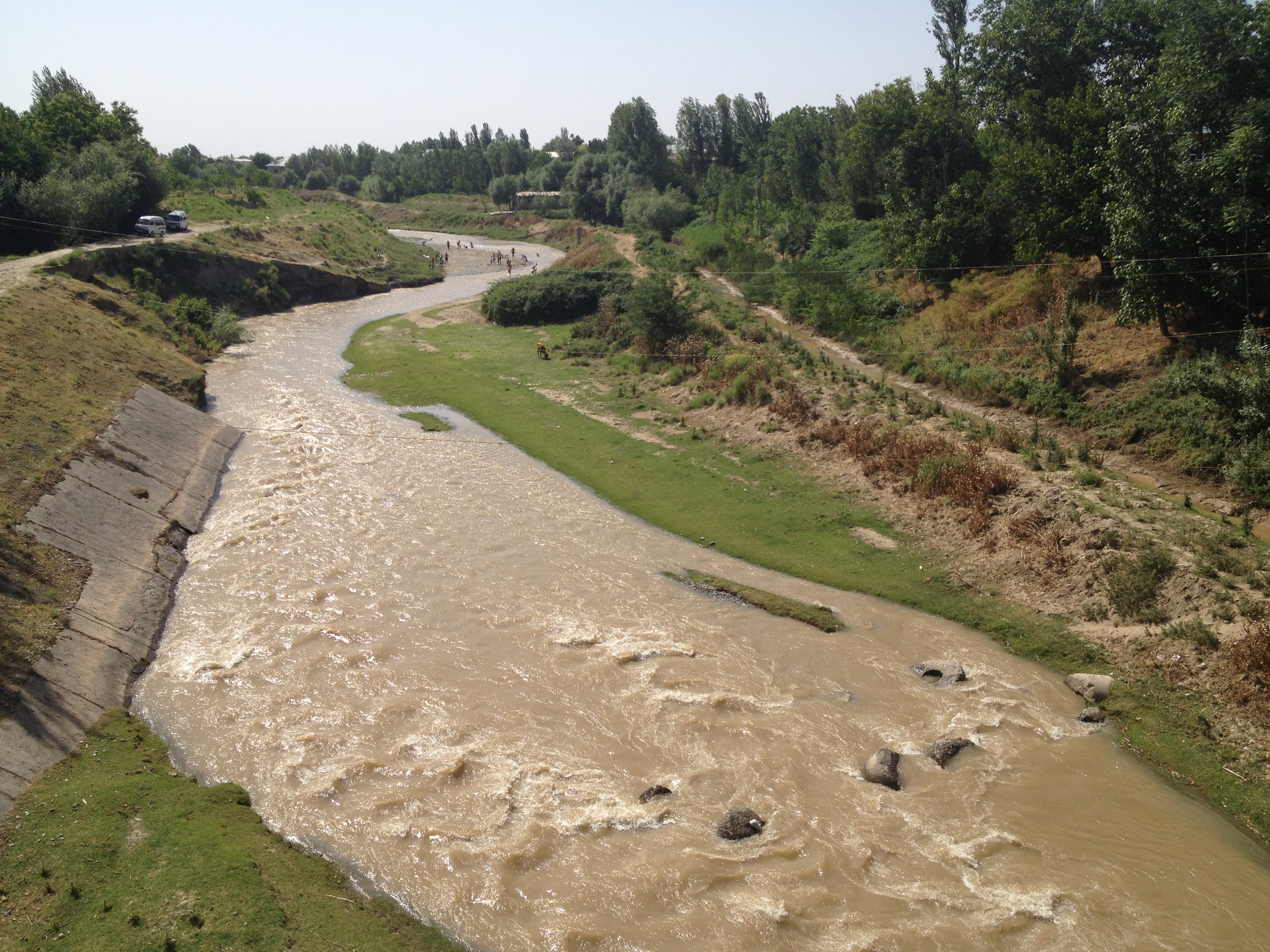 Ak-Dar'ya (Ак-Su) in Kitab townOʻzbekcha/ўзбекча: Oqdaryo (Oqsuv) Kitobda